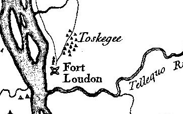 Detail of Timberlake's "Draught of the Cherokee Country," showing the Cherokee town of "Toskegee" and the adjacent Fort Loudoun, in what is now Monroe County, Tennessee, United States.